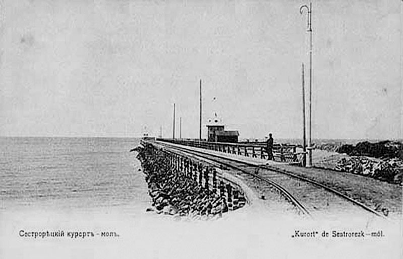 Photo of Miller's pier in 1913